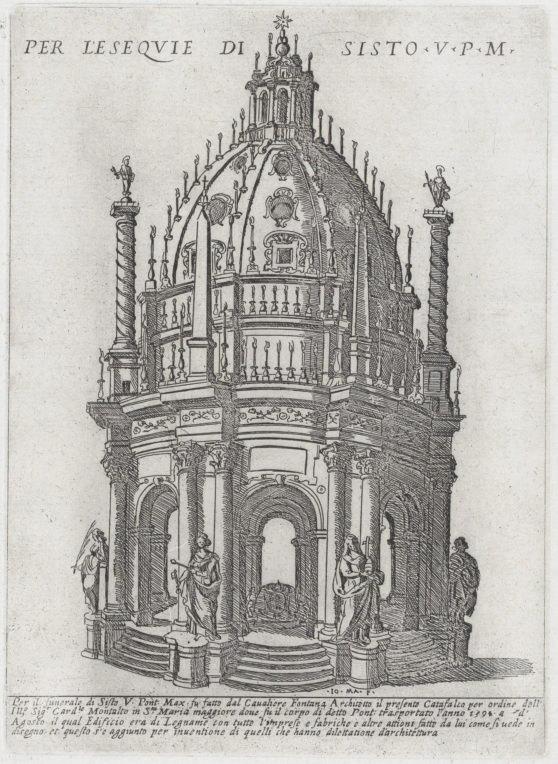 Print, Fete, Ornament & Architecture; Books